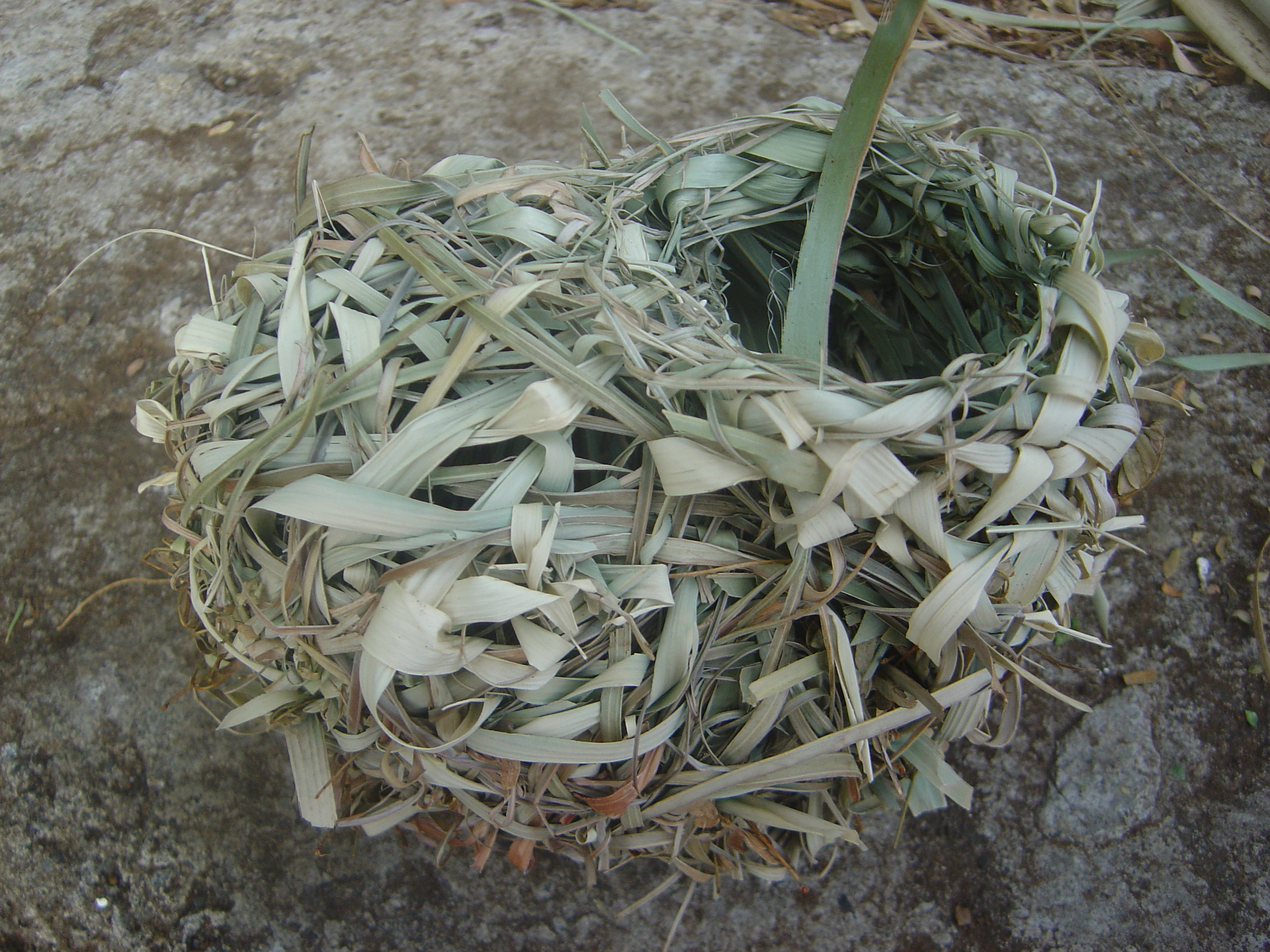 Fallen nest of Ploceus cucullatus Saint-Denis, Réunion Island